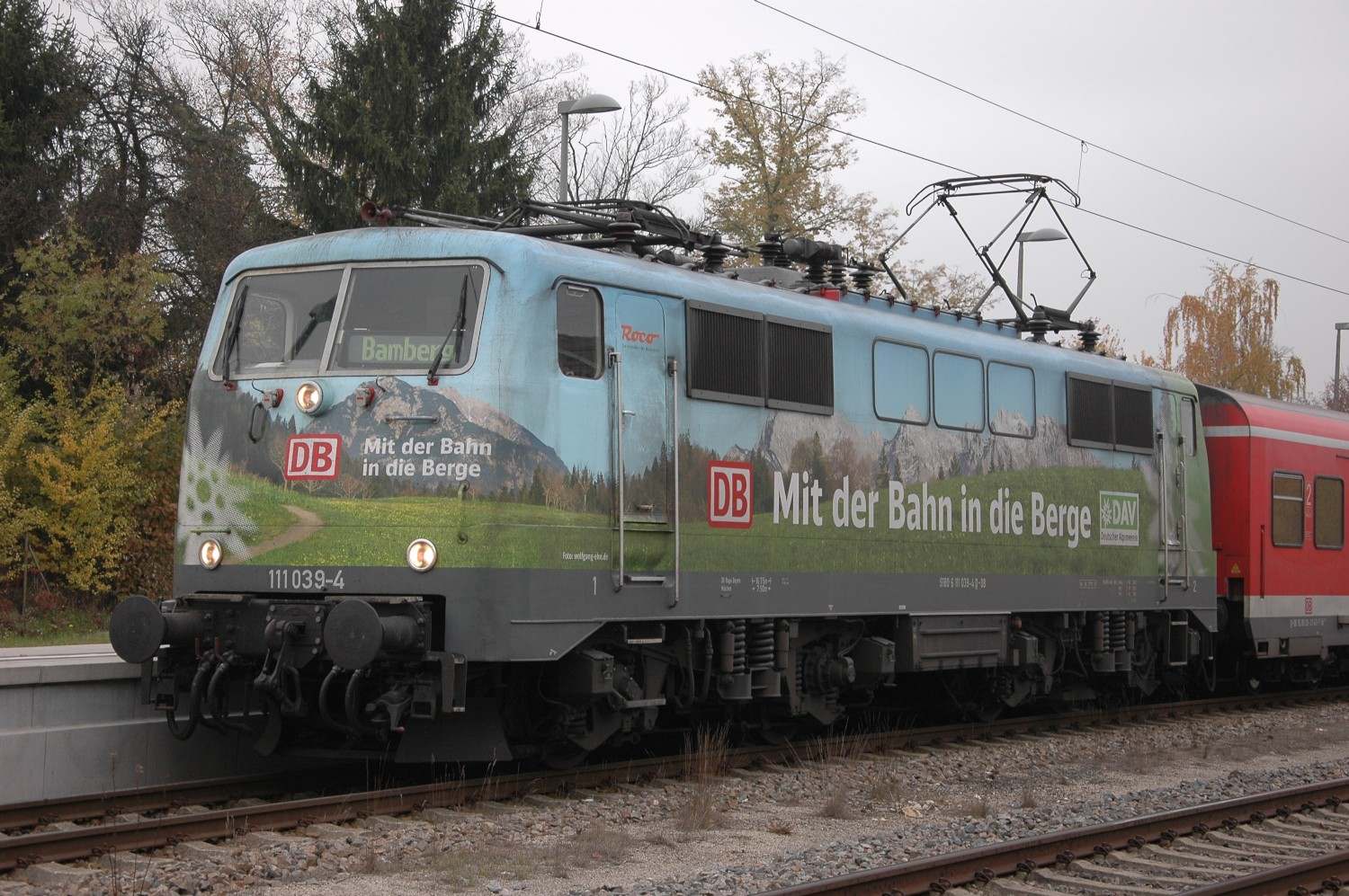 111 039 as advertising locomotive of the DAV at Hersbruck (links Pegnitz) station